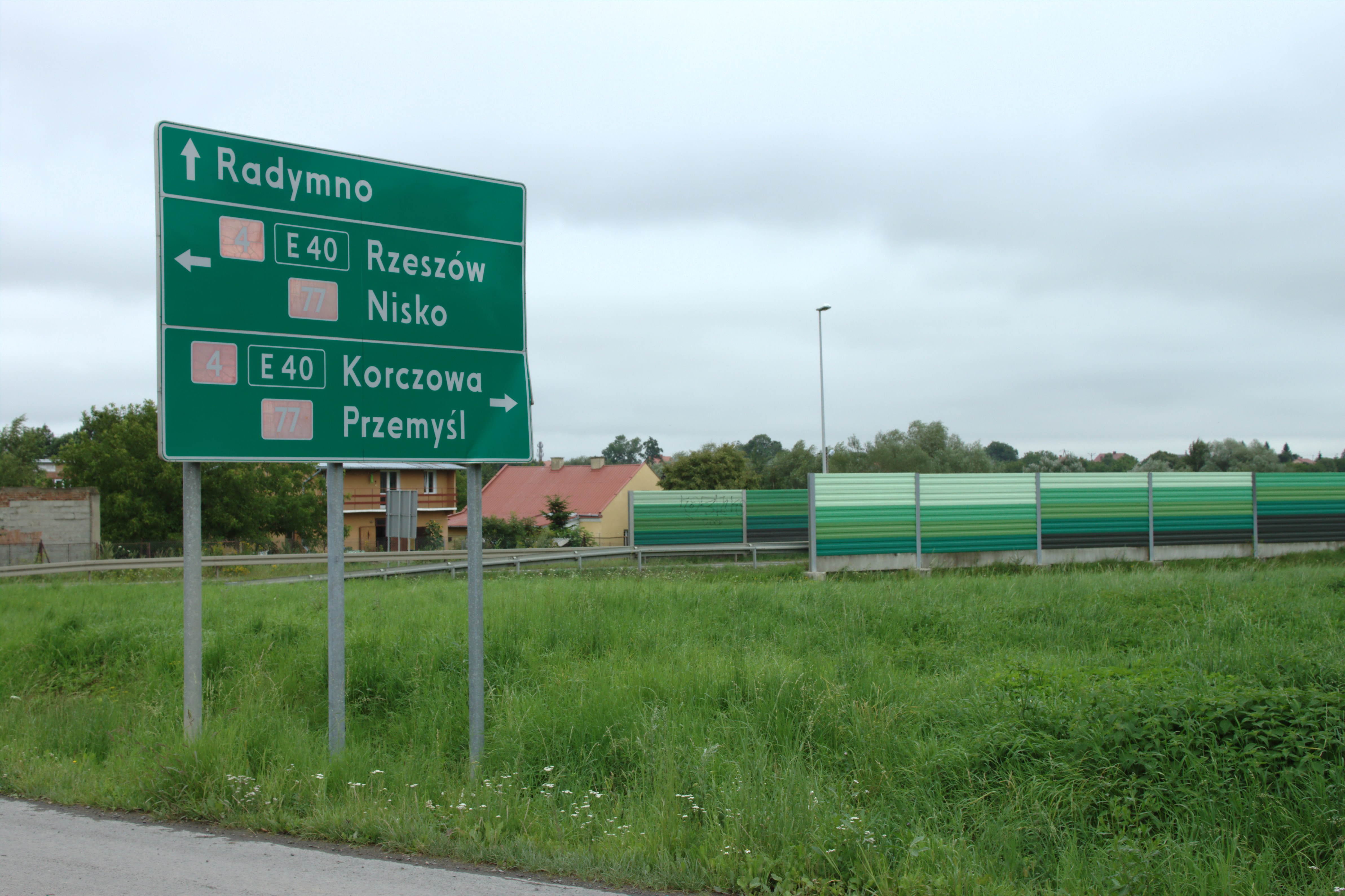 A traffic sign - linking to other towns at the very end of the town of Skołoszów, near the enterance to Radmyno. Podkarpackie voivodeship, Poland